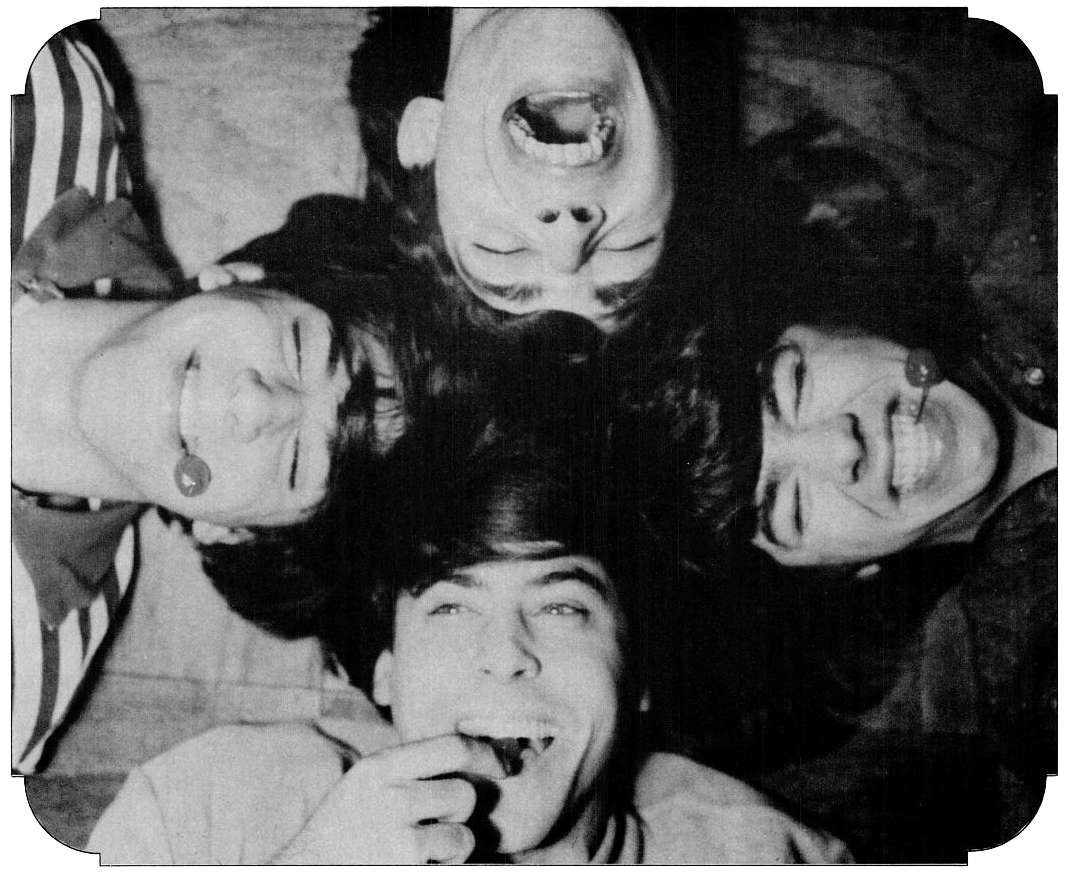 Trade ad for The Fugitives's single "Your Girl's A Woman". To better adapt it to his respective Wikipedia article, the ad was cropped and cleaned in a graphics editing program. The original can be viewed at the source below.